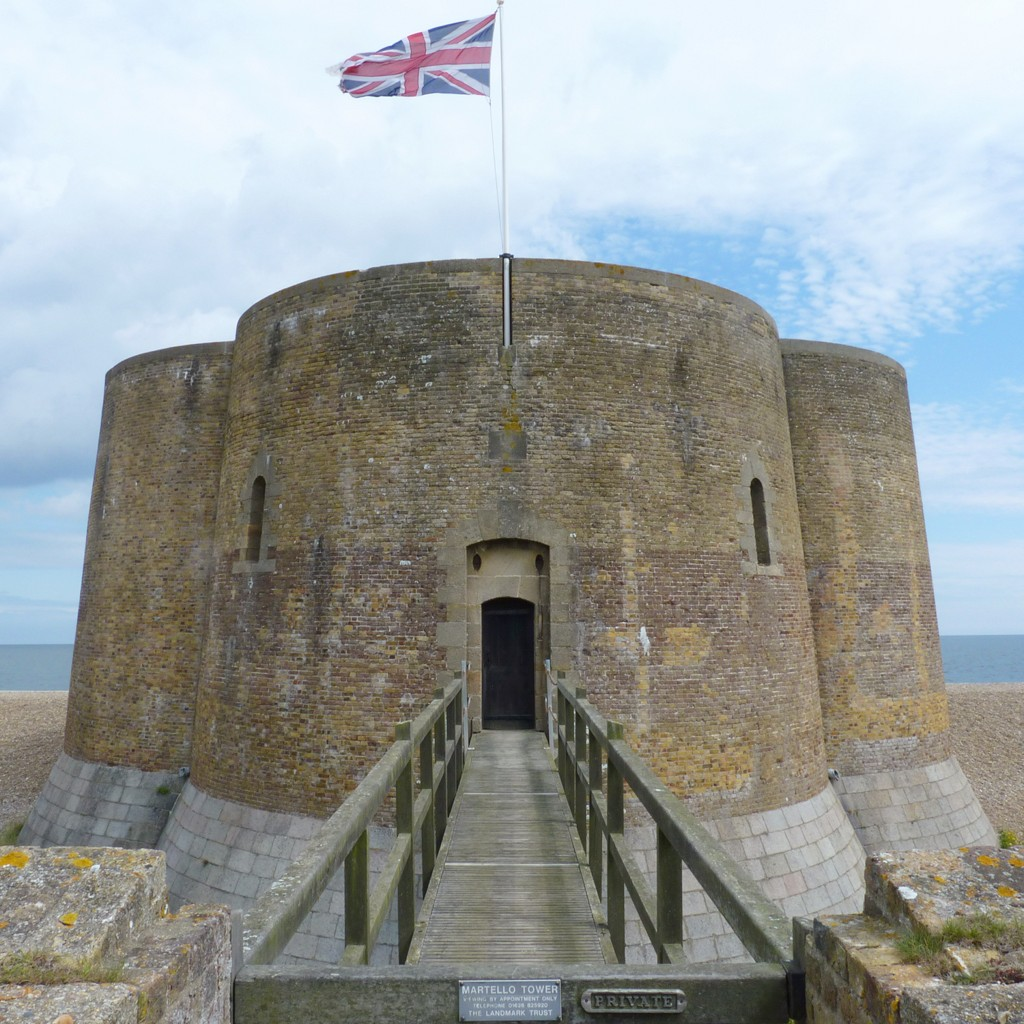 Martello Tower in Aldeburgh, United Kingdom.